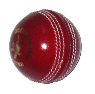 Picture of a cricket ball. [Brand: Kookaburra] From Image:Cricketball 04.jpg taken by User:Albinomonkey. See Image:Cricketball.png for a PNG version of this image which is larger but has a transparent background.